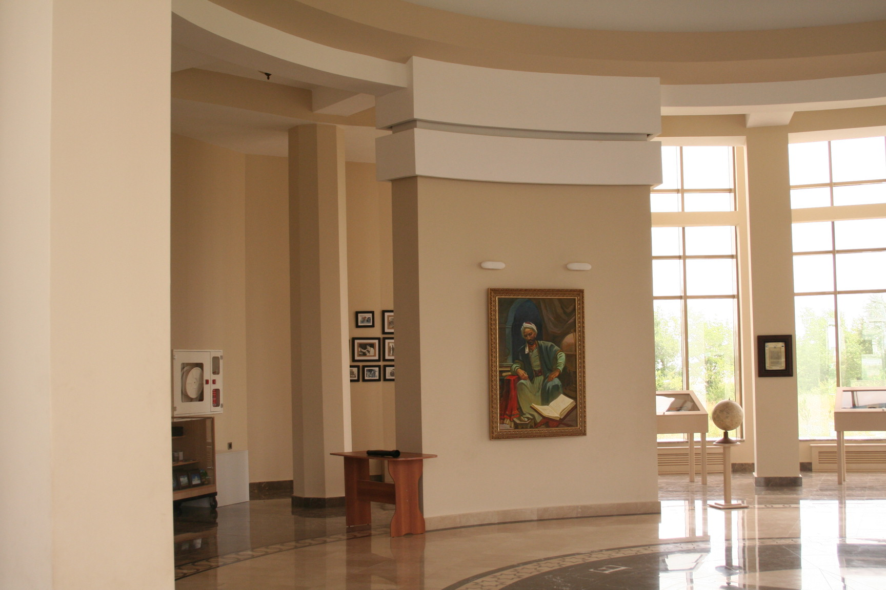 Shamakhi Astrophysical Observatory